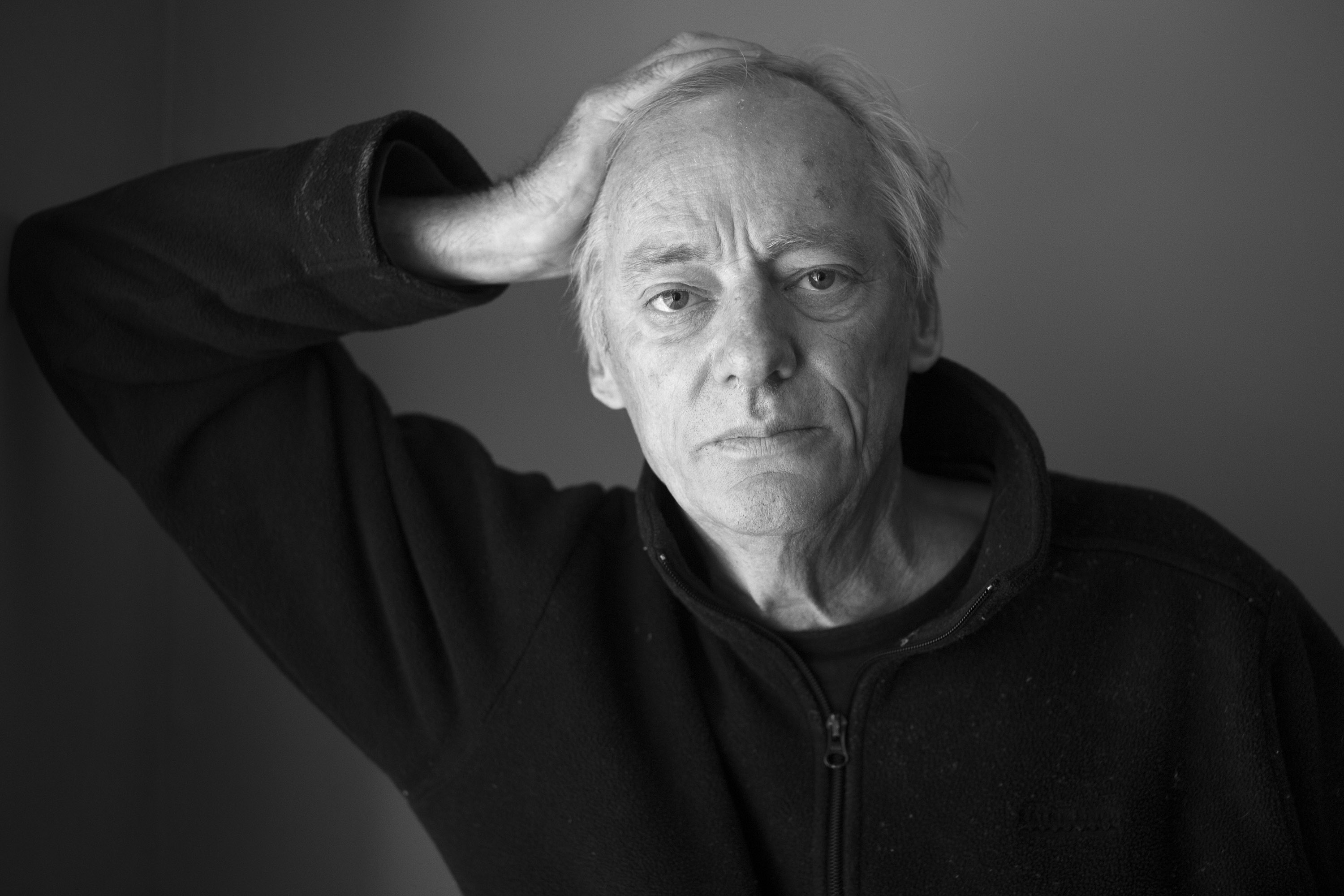 Photographer, Andrew Chapman at home in Kallista, VIC. Photography by Krystal Seigerman, 2014.